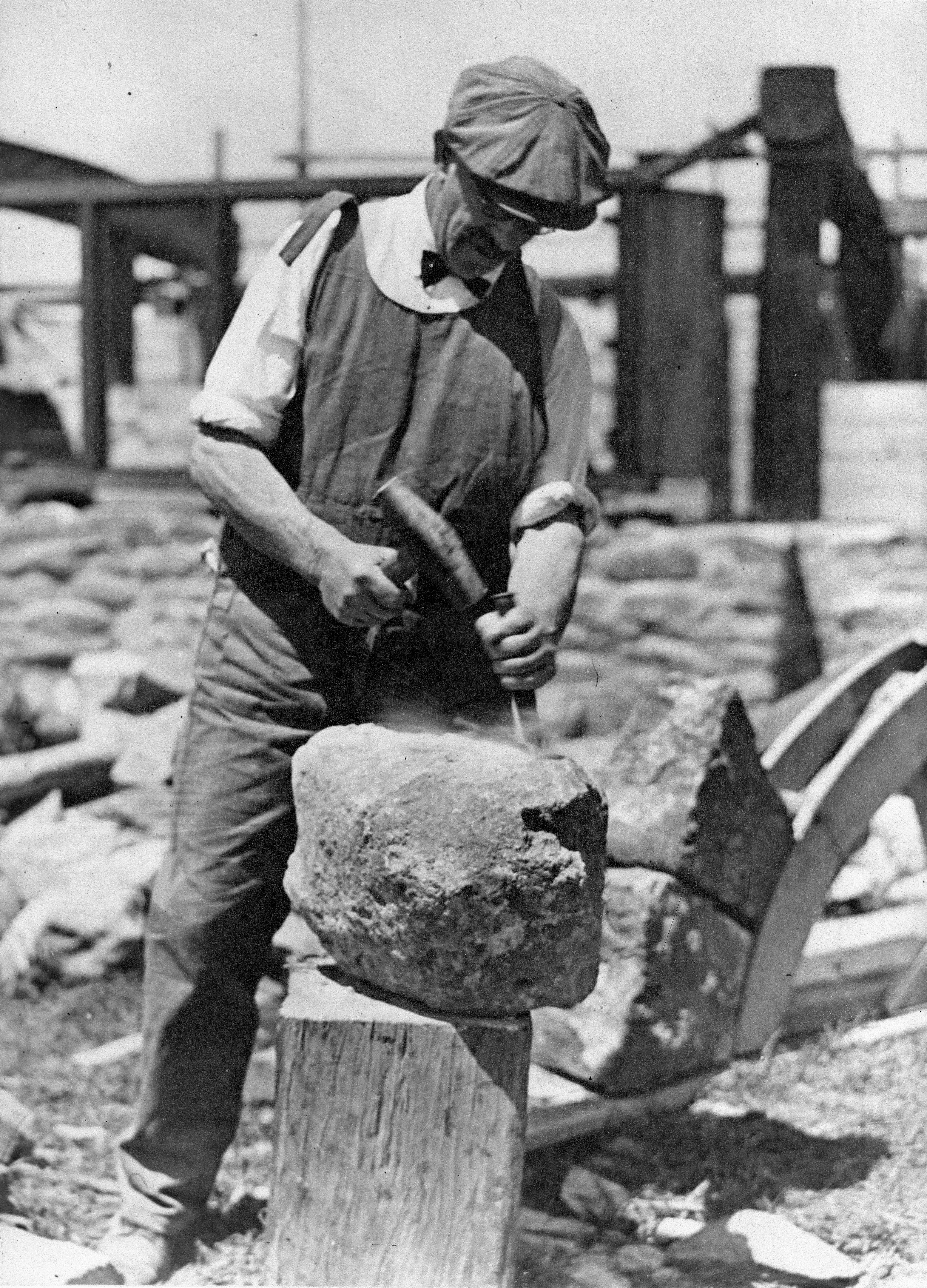 John Barr chiseling a stone for E S Wilkinson's house in North Taranaki. Taken by James Walter Chapman-Taylor circa 1930.